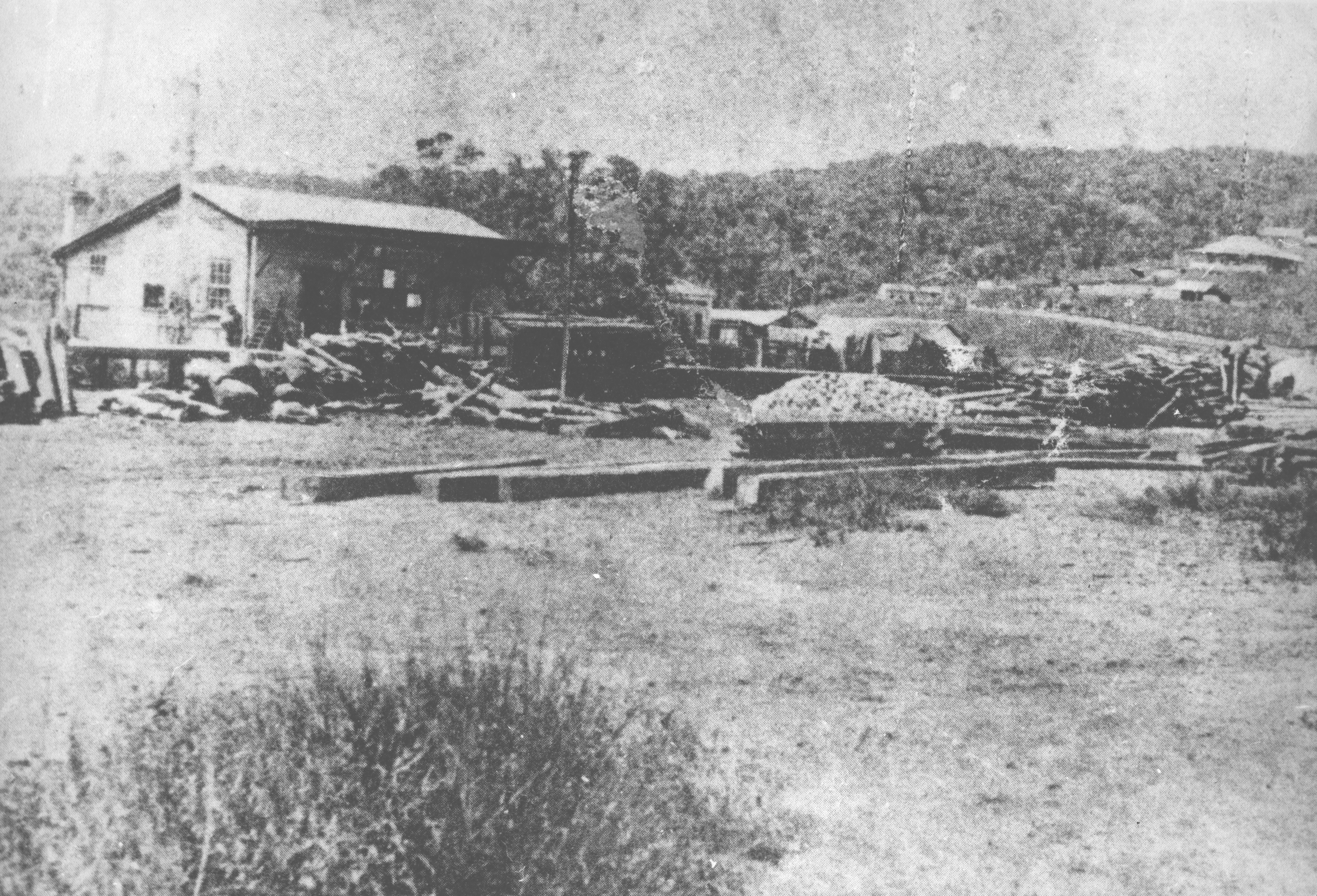 Ribeirao Pires Train Station